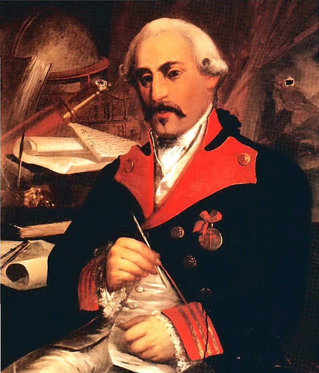 Portrait of José Cadalso